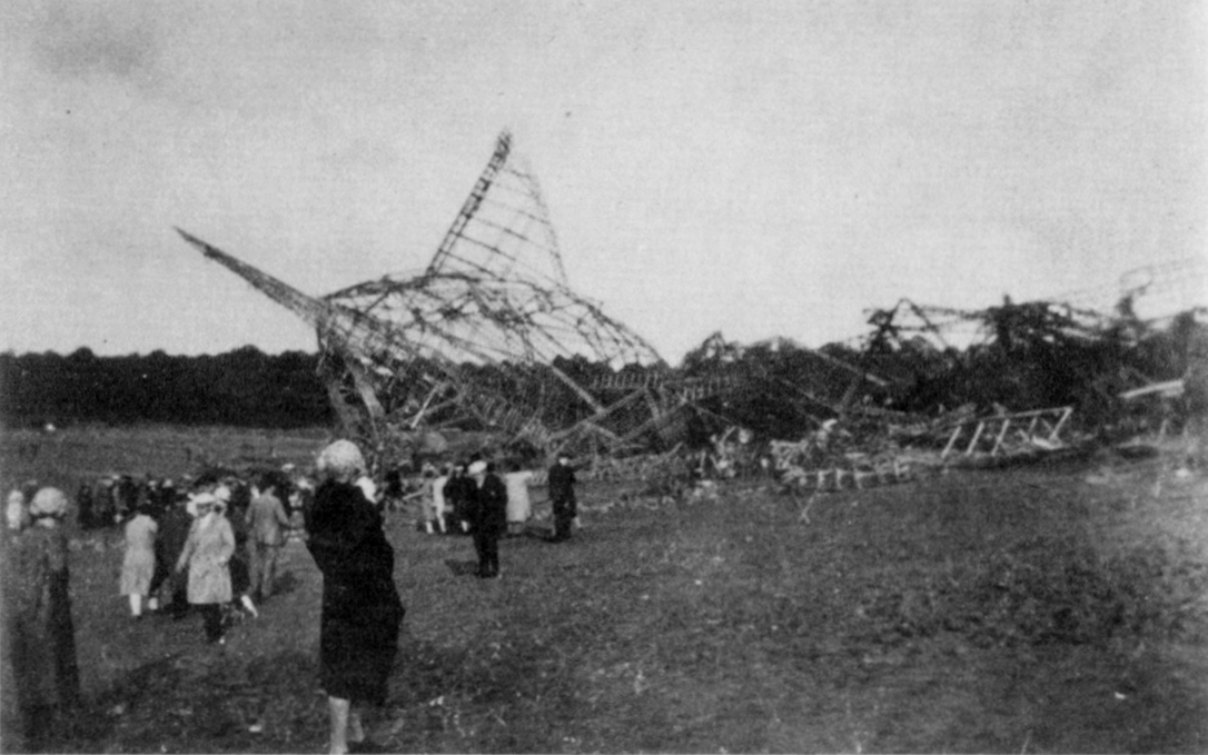 Photograph of the wreckage of the R101 airship which was probably taken not long after the crash on 4 October 1930 in Allonne, Picardie (France).